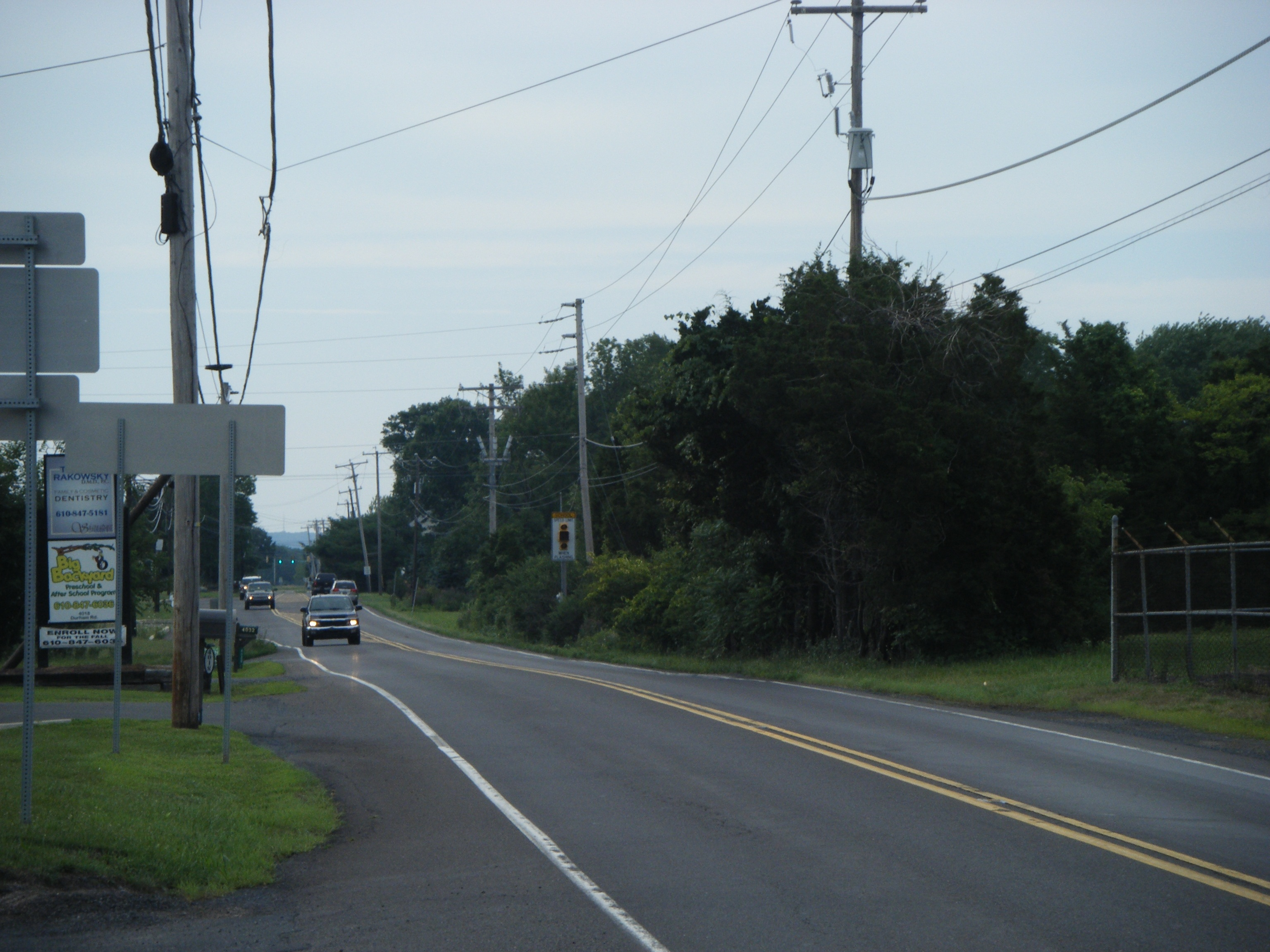 Northbound Pennsylvania Route 412 (Durham Road) past the southern terminus at Pennsylvania Route 611 (Easton Road) in Nockamixon Township, Pennsylvania